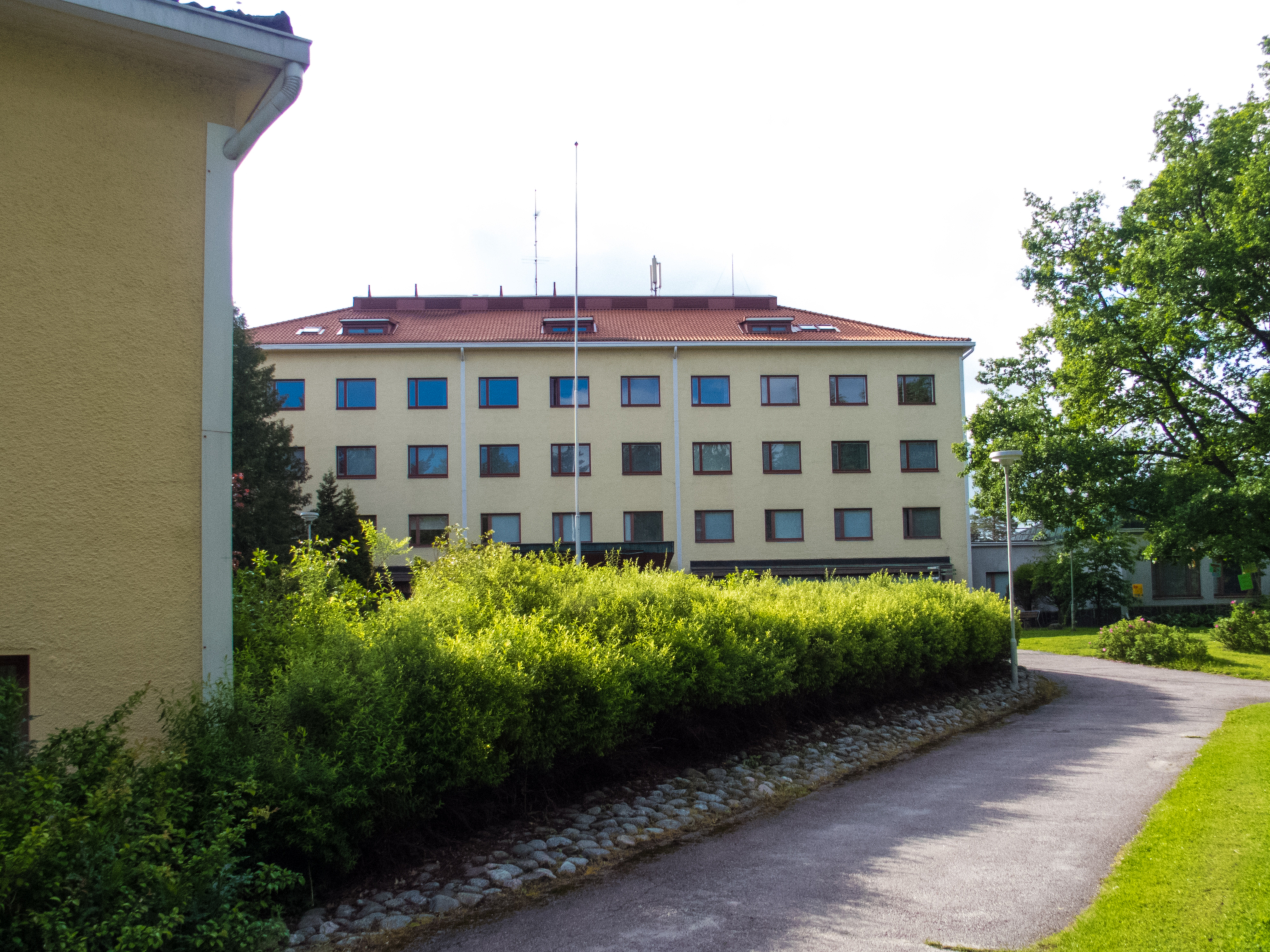 Kiljavan opisto, trade union SAK's training center by the lake Sääksjärvi in Kiljava, Nurmijärvi, Finland.